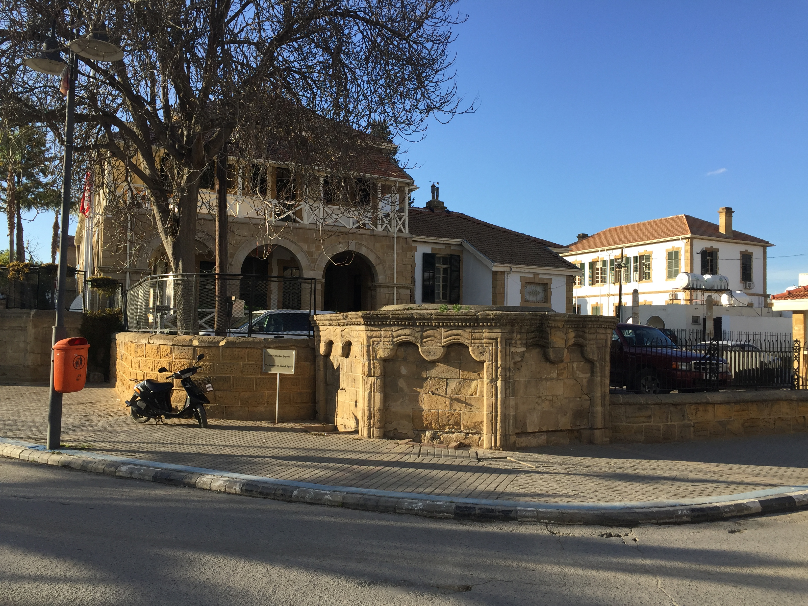 The Ottoman fountain on the Sarayönü Square, North Nicosia, with the Law Courts building in the background.